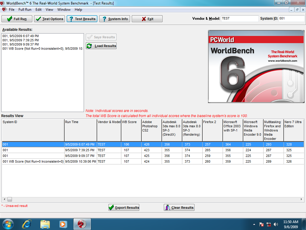 A Computer running WorldBench6